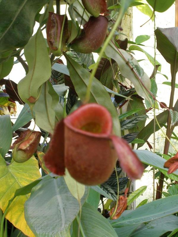 Nepenthes ampullaria in Kew Gardens, England.